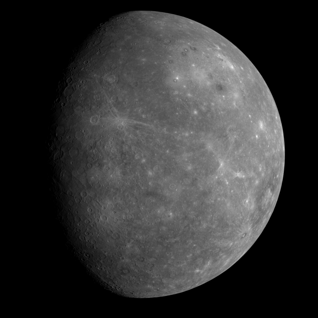 MESSENGER image - First look at side of Mercury not seen by Mariner 10